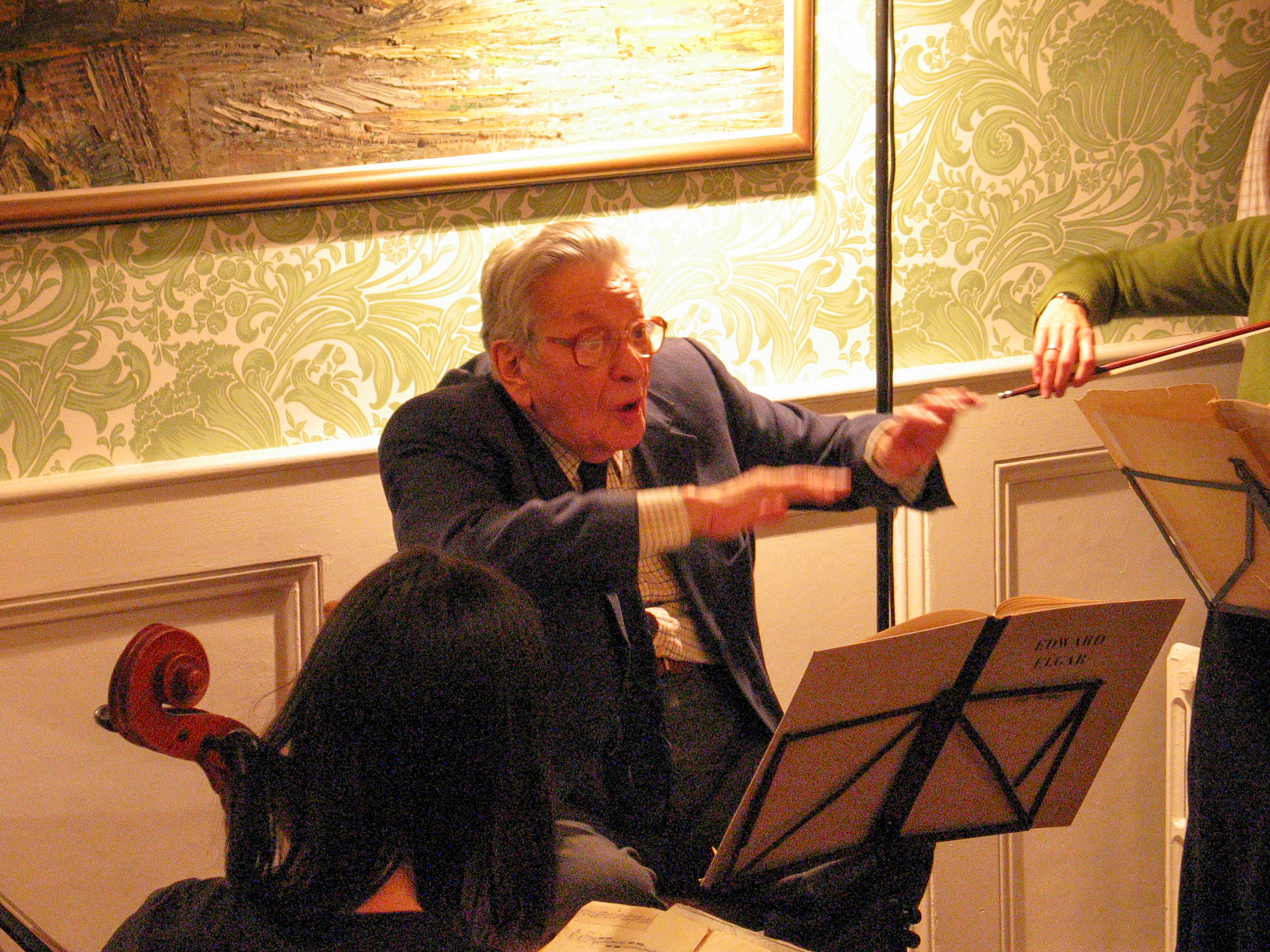 Emanuel Hurwitz conducts an impromptu string ensemble at the 2006 birthday celebration of Sheila Nelson in north London.